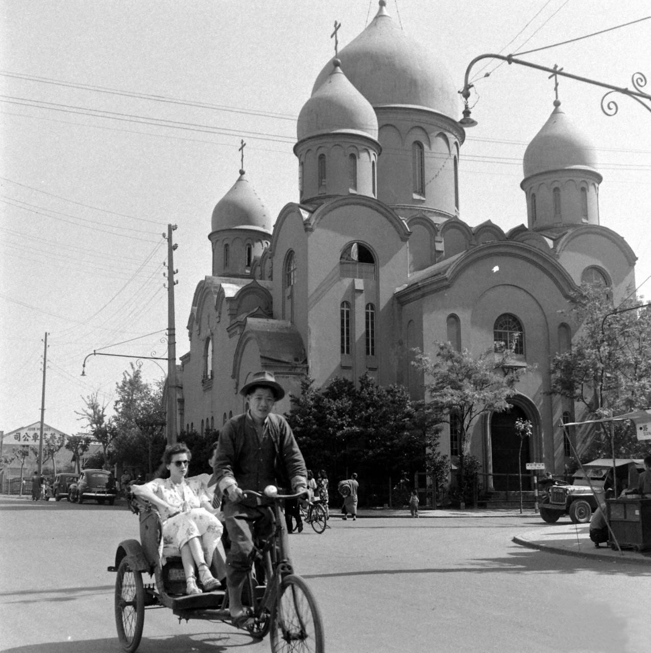 Detail of a photo from the Life magazine photographic archives.